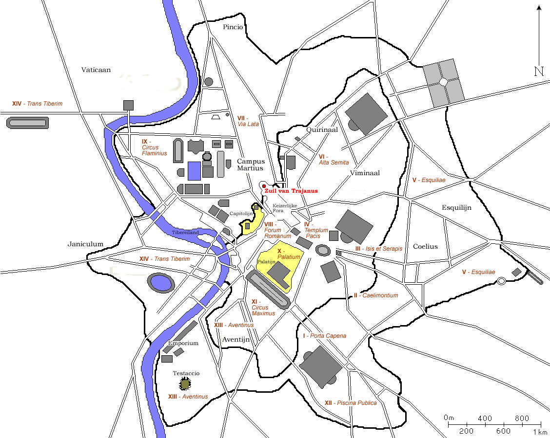 Column of Trajan on a map of ancient Rome around 300 AD